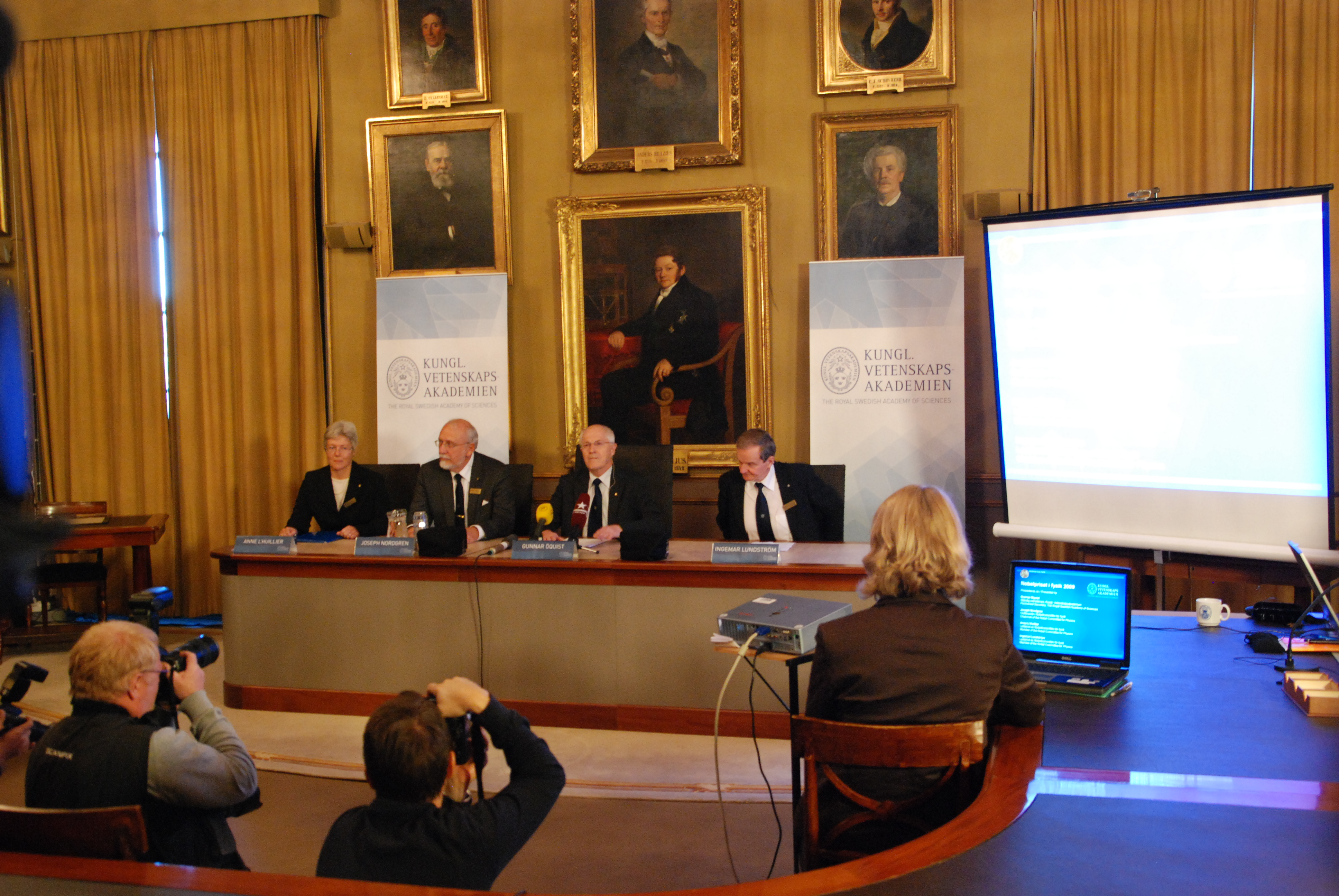 Announcement of the Laureate of the Nobel Prize in Physics 2009